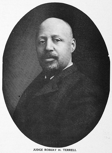 Portrait of Judge Robert H. Terrell